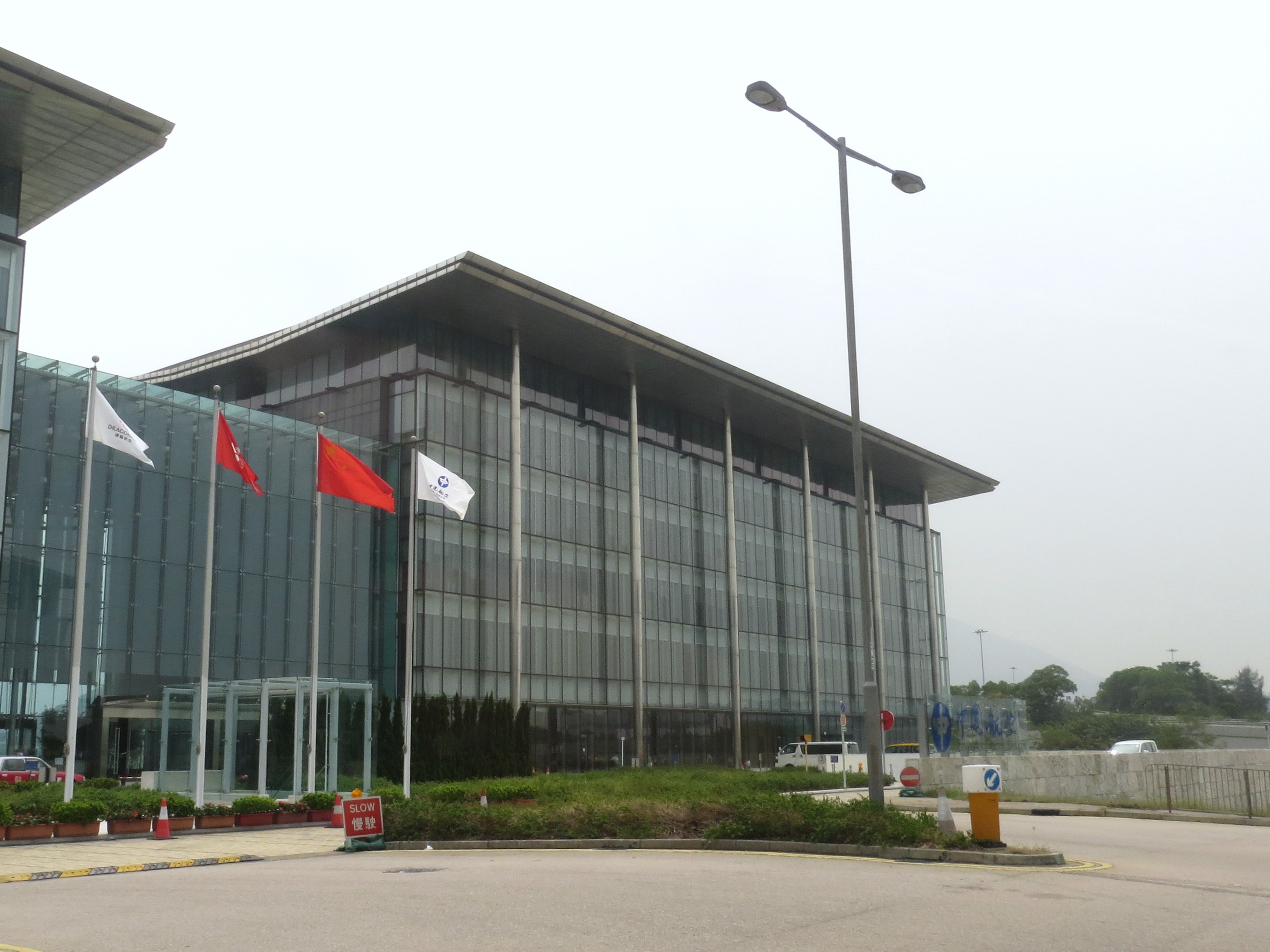 Hong Kong Airlines Headquarter Office, Level 2 CNAC House, 12 Tung Fai Road, Hong Kong International Airport, Lantau, Hong Kong.